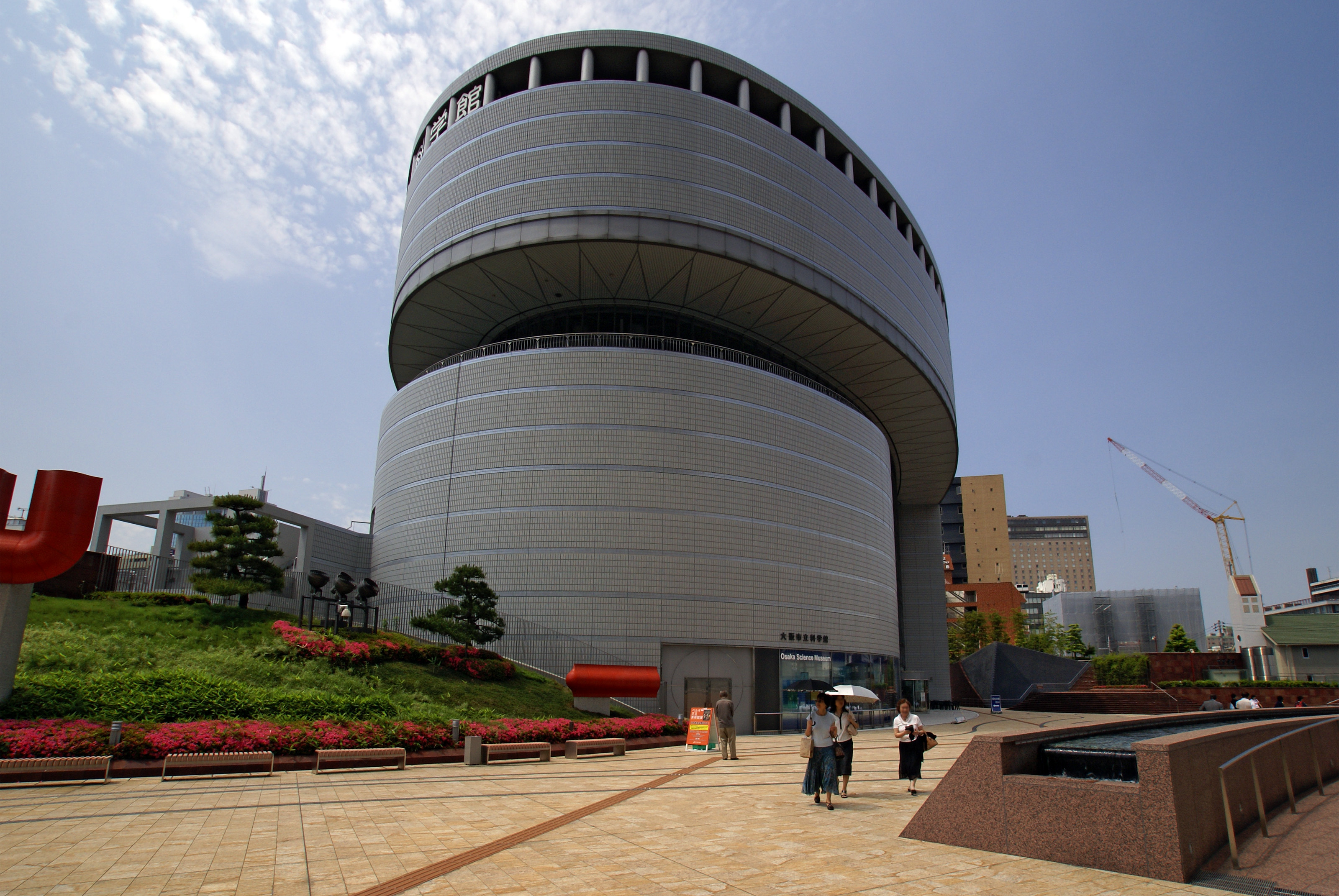 Osaka Science Museum in Osaka, Osaka prefecture, Japan